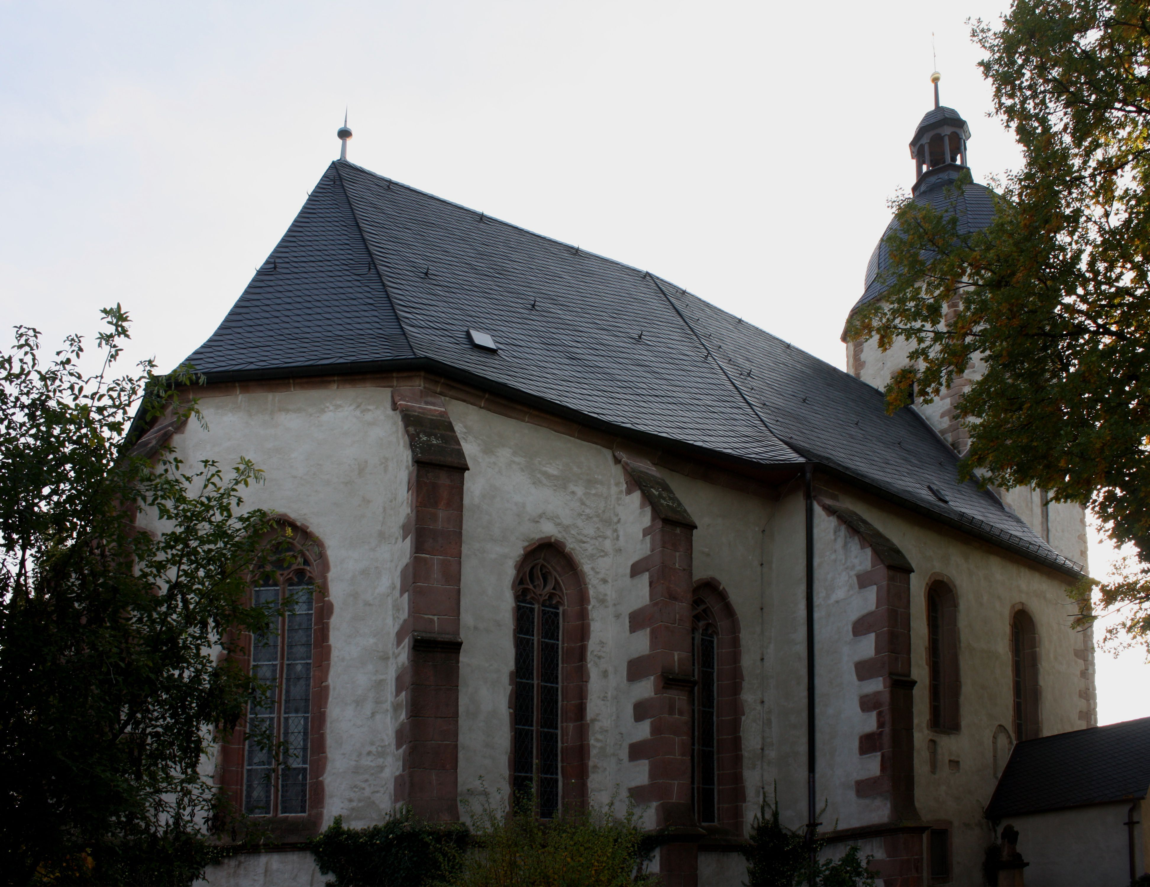 Church in Ehrenhain near Altenburg/Thuringia